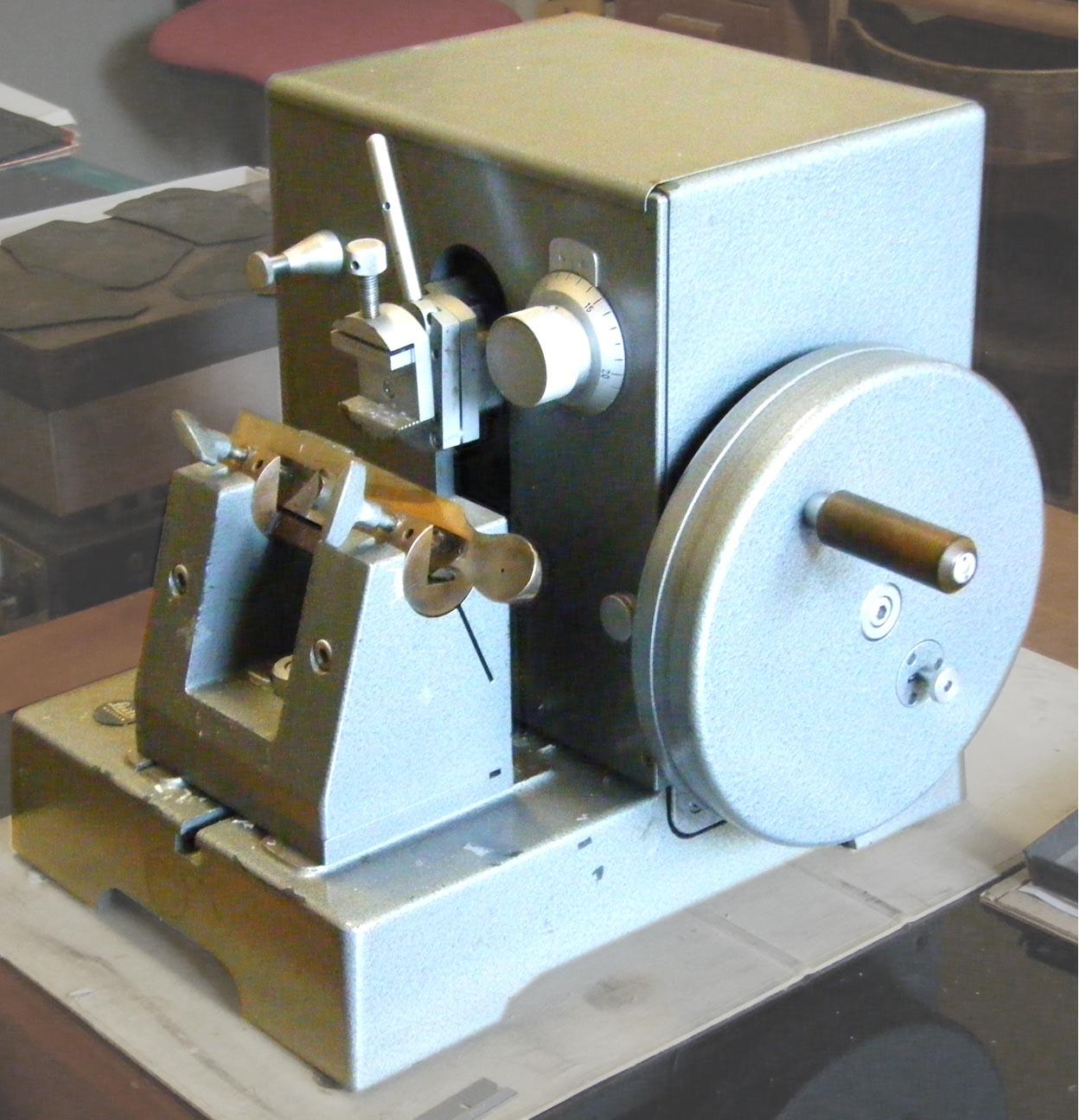 Microtome 2